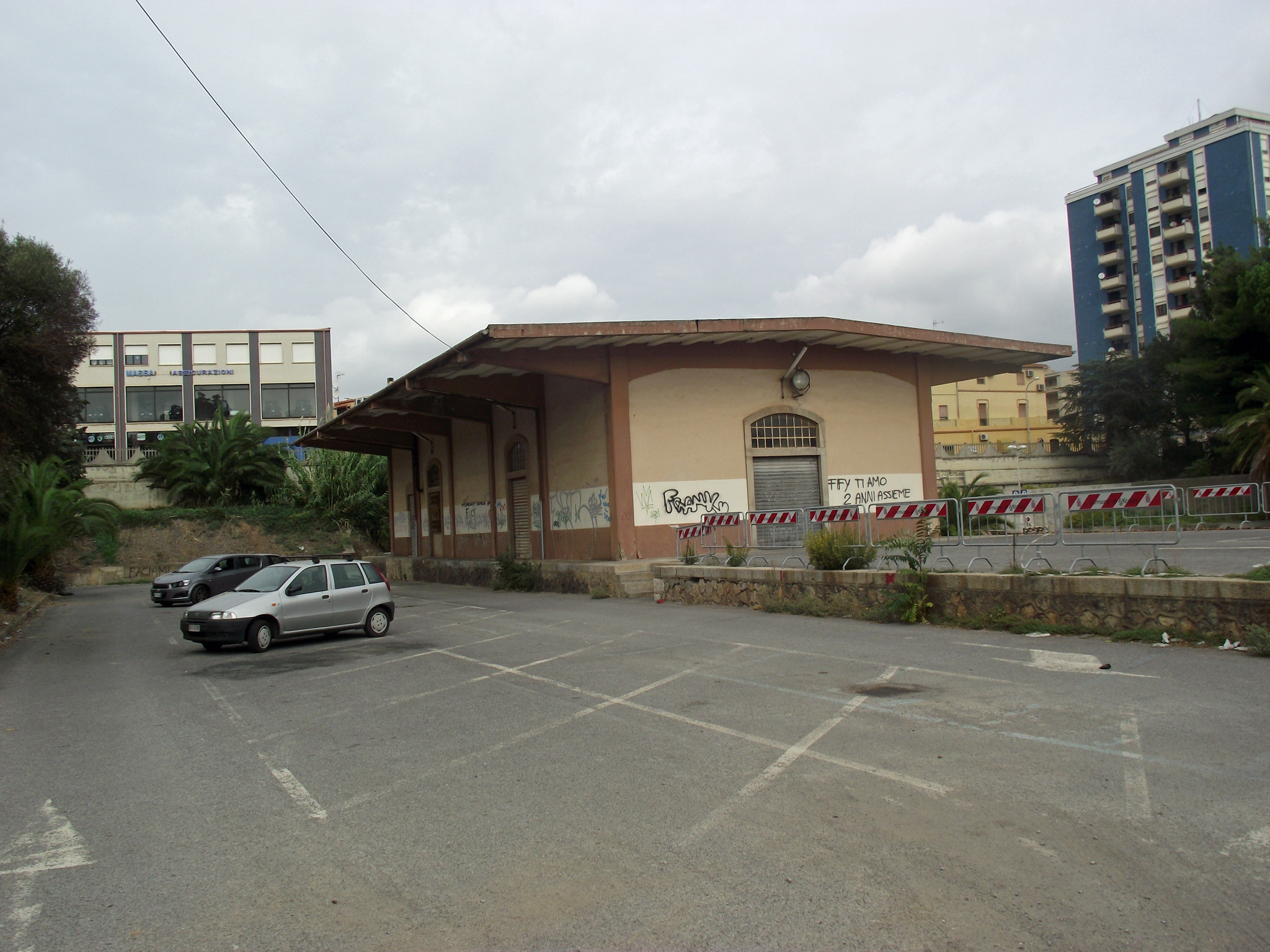 The disused goods shed of the Iglesias railway station, in Sardinia, Italy